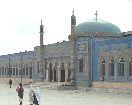 Mazar-e-Sharif's Blue Mosque is a magnificent and sacred structure of cobalt blue and turquoise minarets, attracting visitors and pilgrims throughout the world